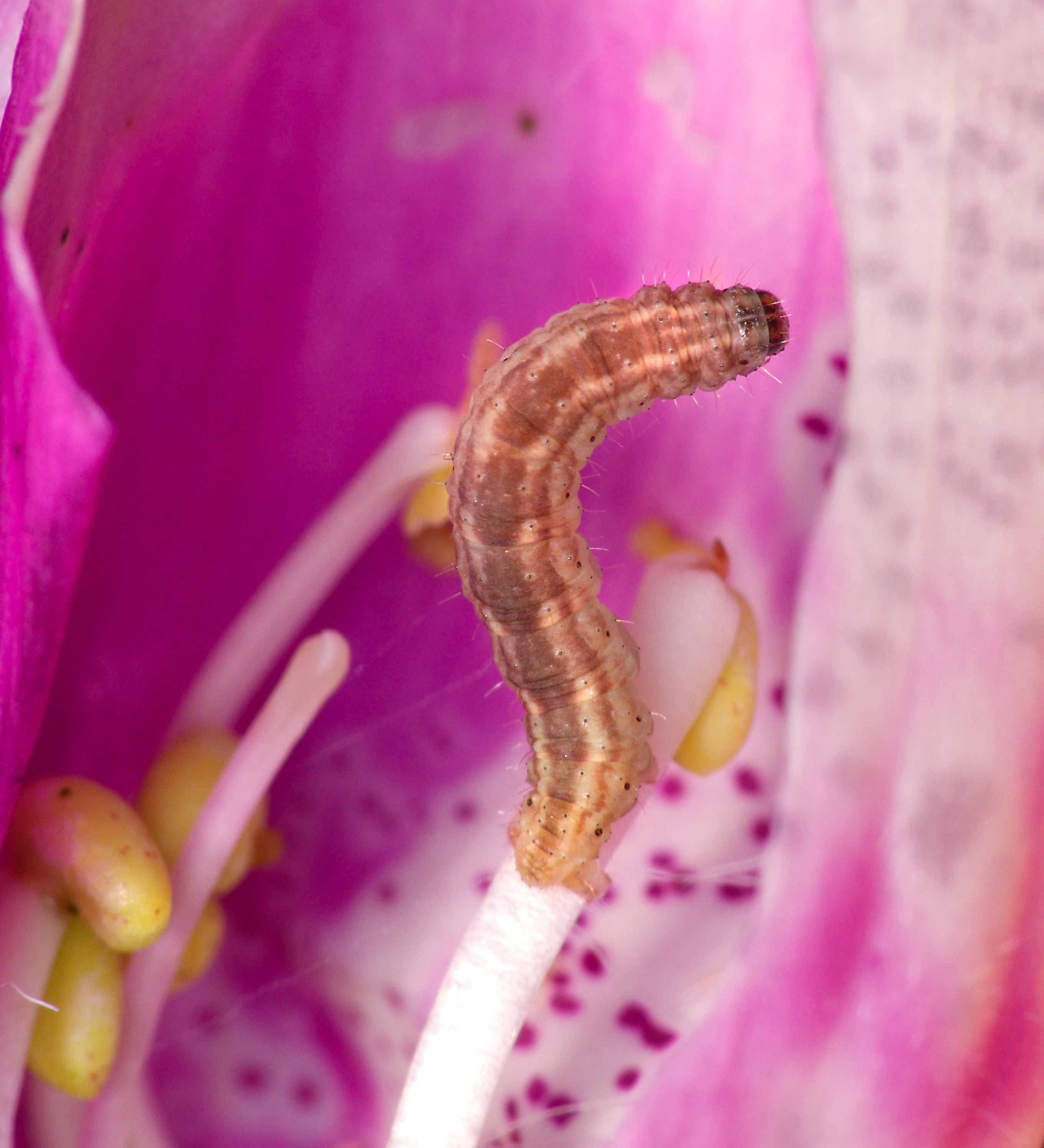 Uffmoor Wood, Worcestershire.